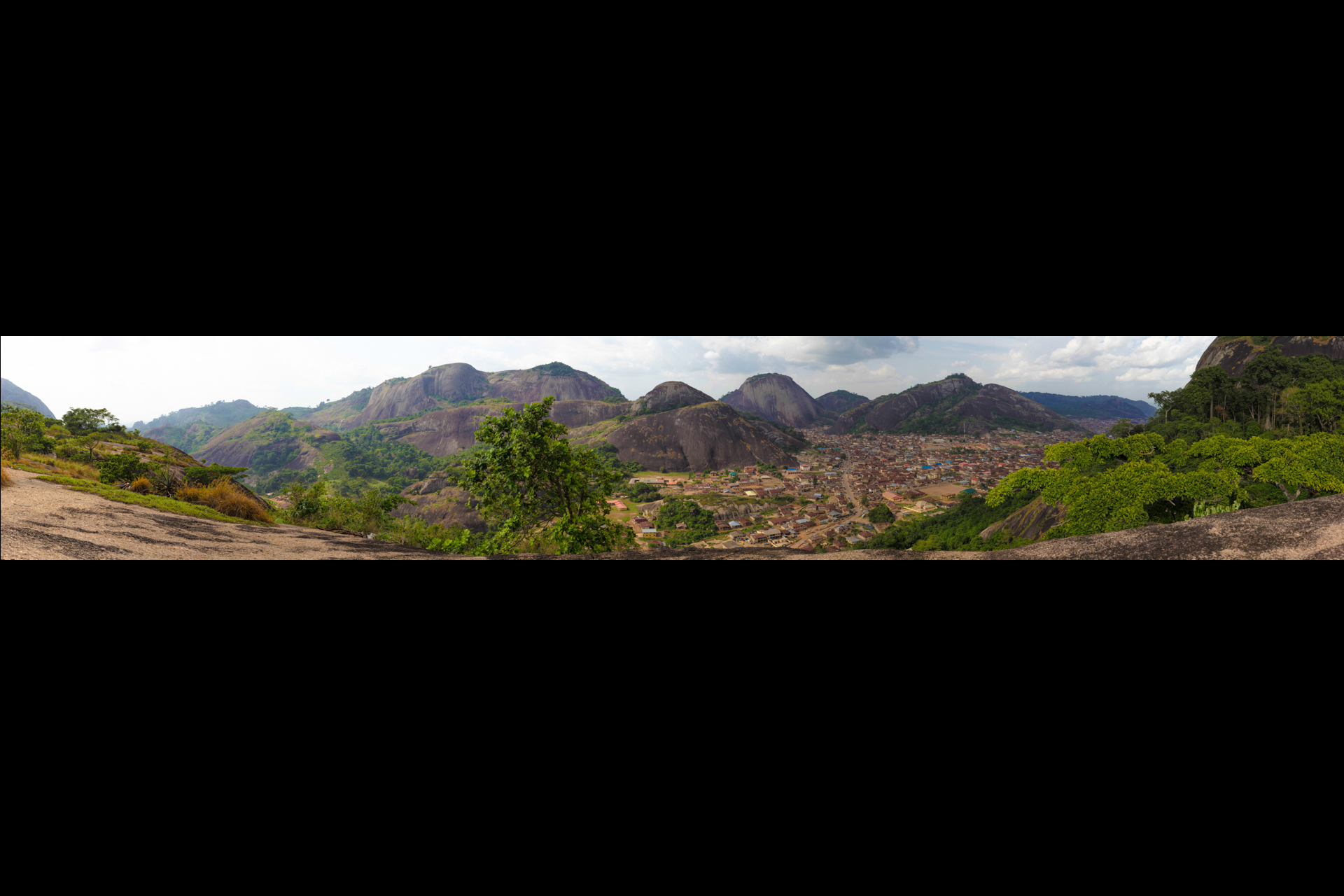 A view of the entire town of Idanre